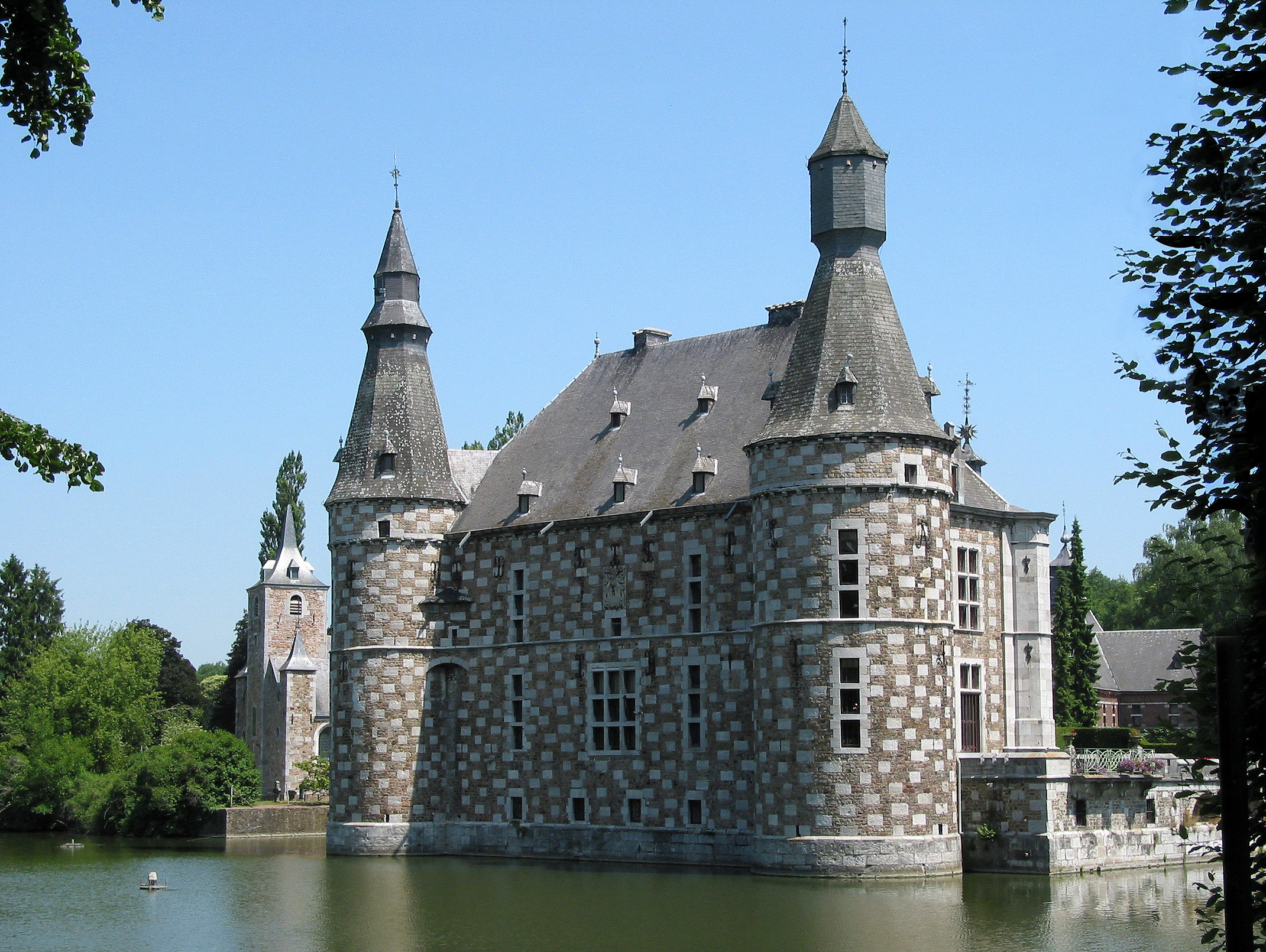 Jehay (Belgium), the castle (XVI-XVIIth centuries).